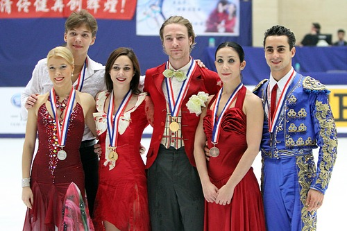 Ekaterina Bobrova / Dmitri Soloviev, Nathalie Péchalat / Fabian Bourzat and Federica Faiella / Massimo Scali at the Cup of China 2010